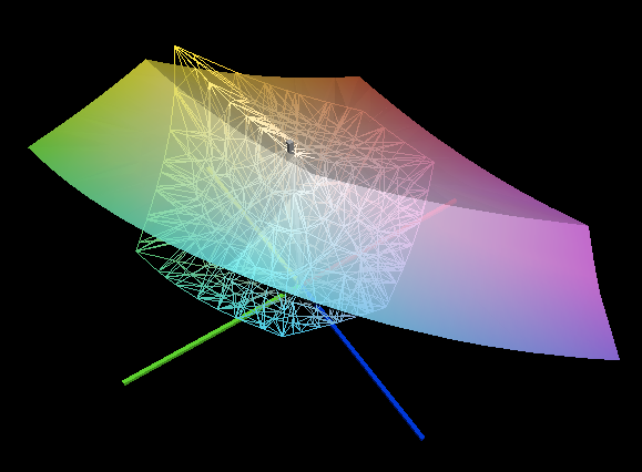 Gamut of sRGB (solid) and CMYK offset printing (wireframe) in CIELAB color space